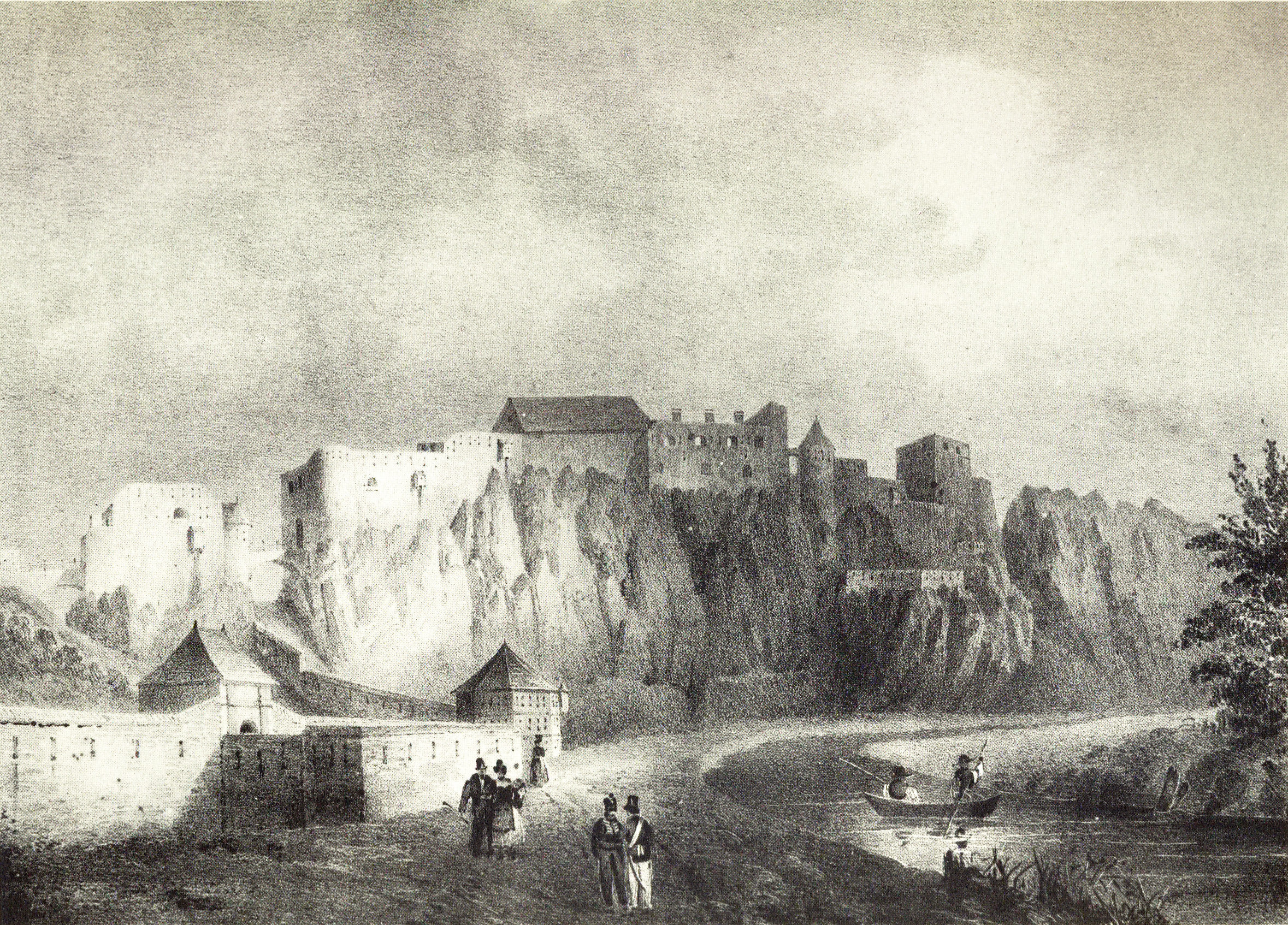 Citadel of Bouillon, Belgium. Drawing.